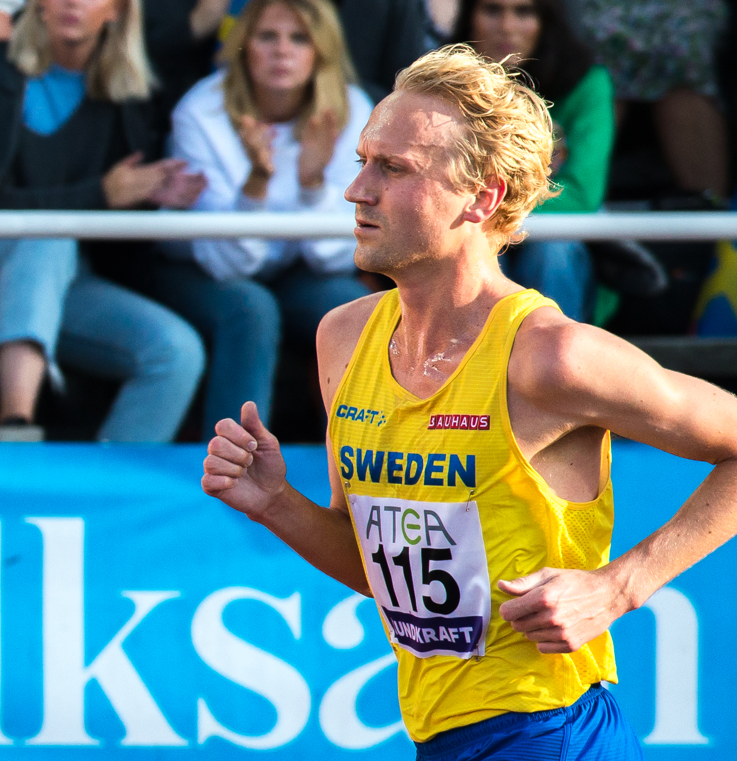 David Nilsson during 5000 metres in the Finland-Sweden athletics international 2019 at the Stockholm Stadium in August 2019.